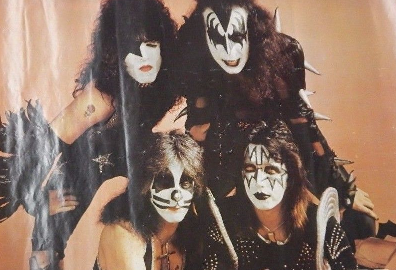 Kiss in 1974.